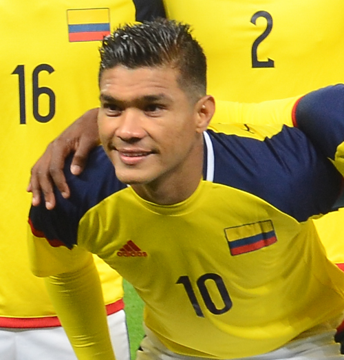 São Paulo - Colômbia vence a Nigéria por 2x0 na Arena Corinthians (Rovena Rosa/Agência Brasil)